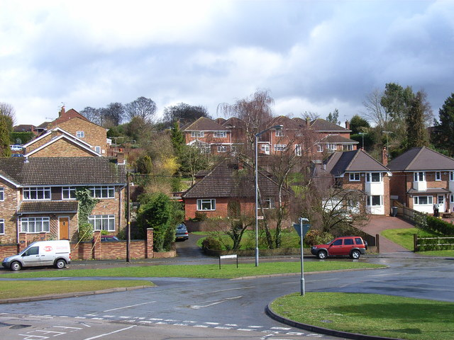 Eastern Dene, Hazlemere. View east from Park Parade shops.